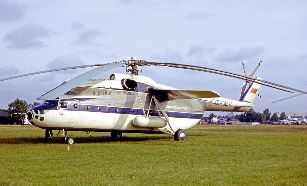 Mil Mi-6 CCCP-06174 of Aeroflot at the 1965 Paris Air Show